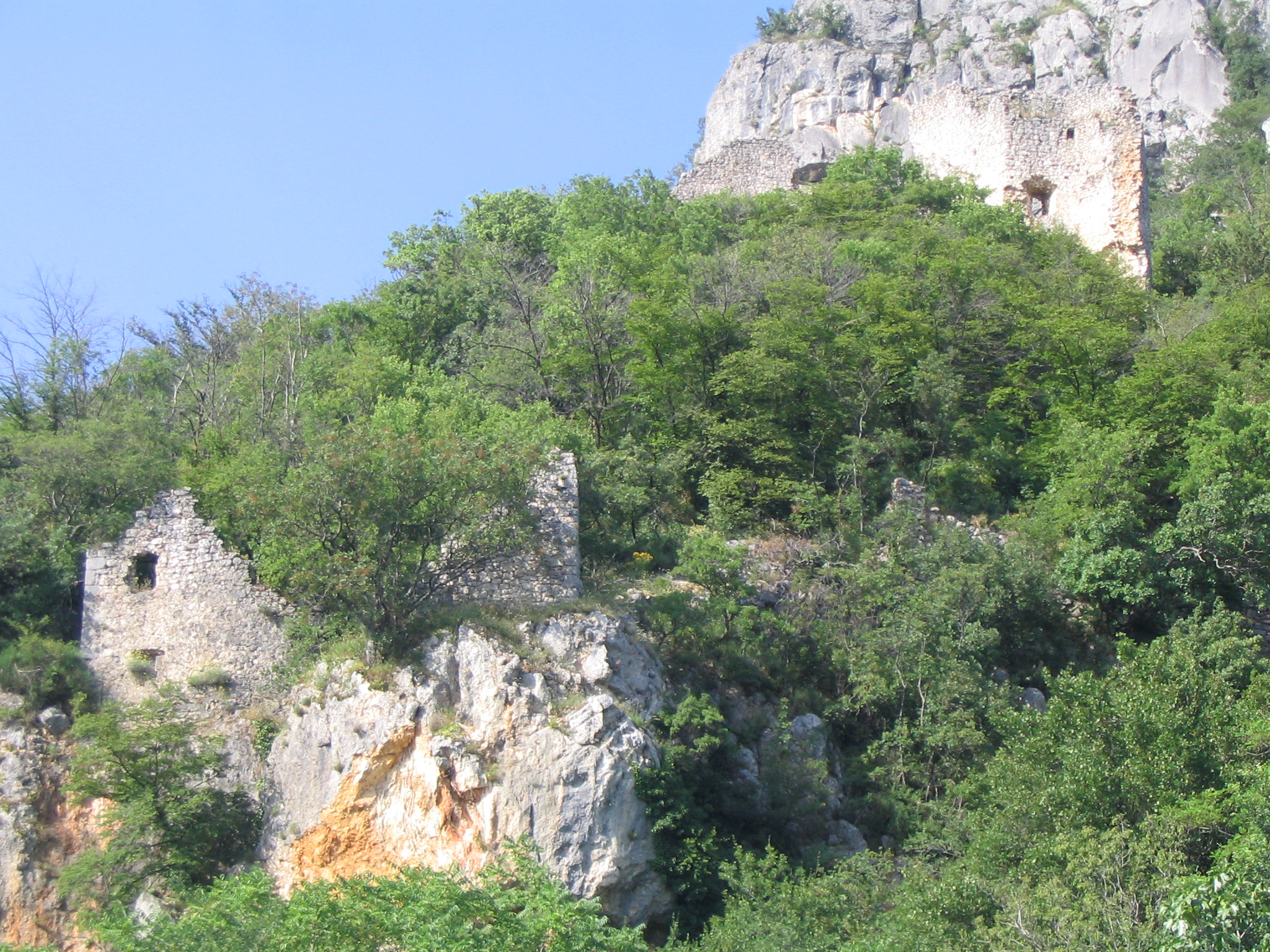 old castles in Grižane, Croatia